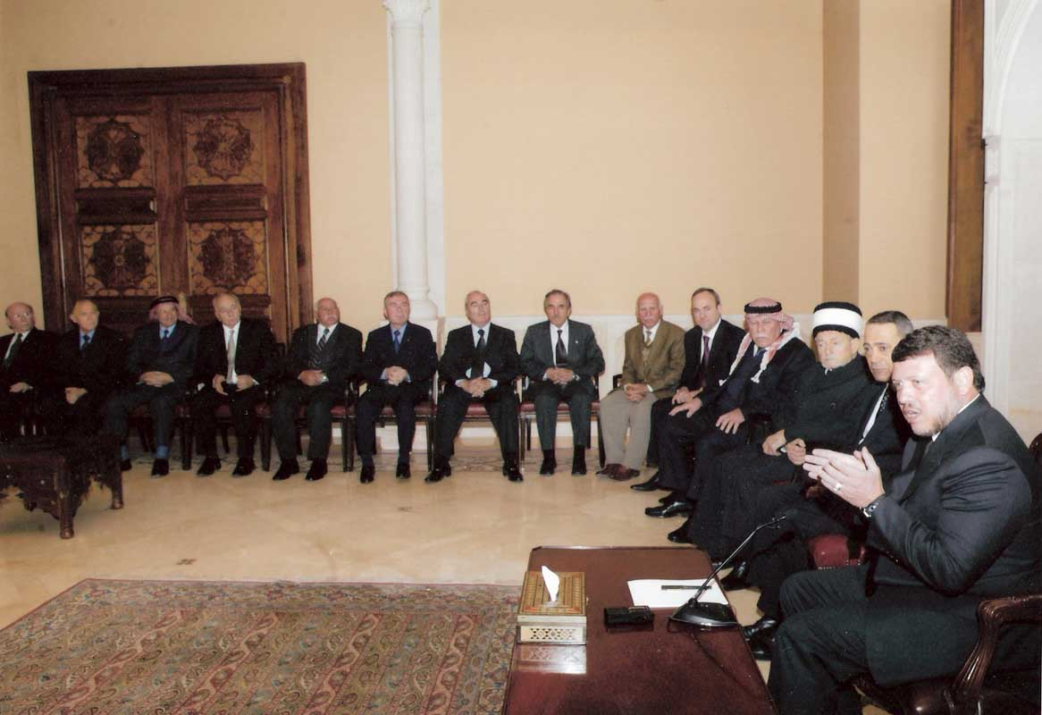 The Circassian Tribal Council meeting with HM King Abdullah II